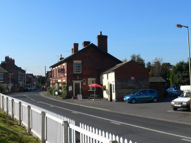 The Albion Pub near Wem station.